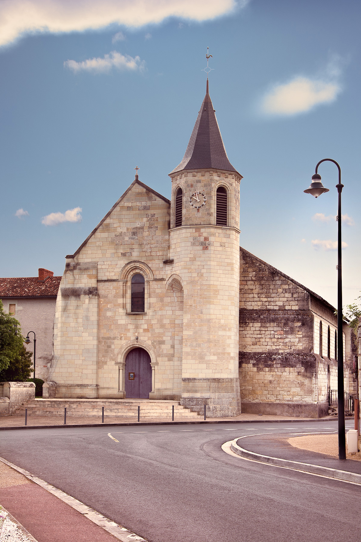 Ouzilly's Church